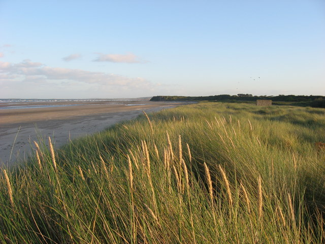 Marram grass and strand at Mosney, Co. Meath Looking south-east towards Ben Head. The wall on right was part of an army obstacle course.